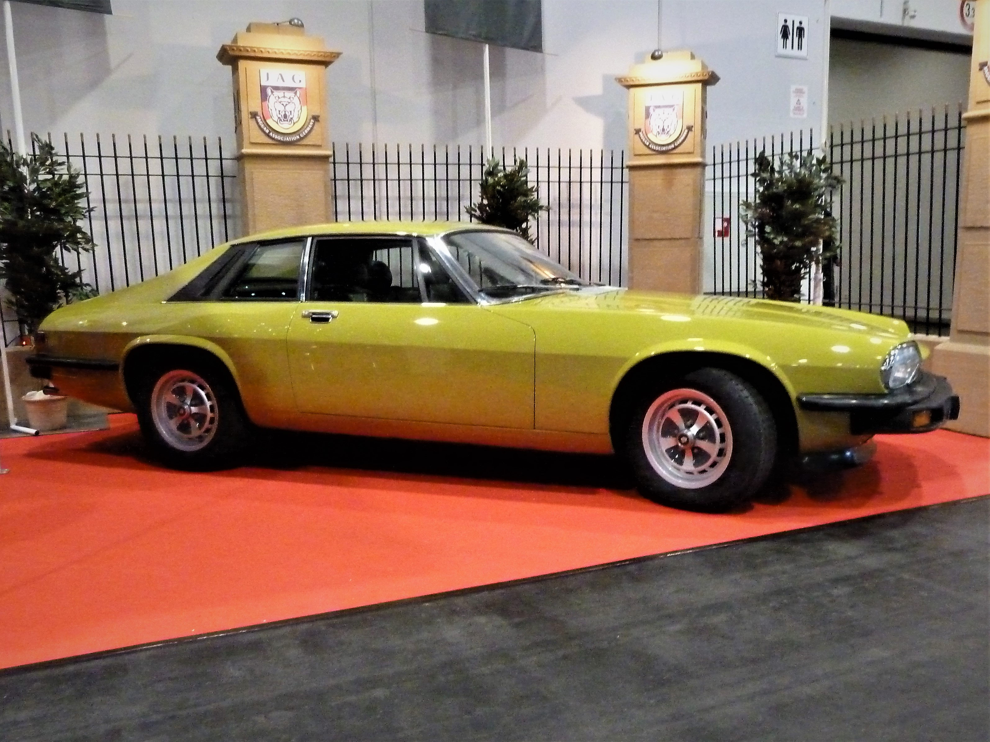 XJ-S GT Coupe - Date of manufacture: 18. June 1975 - Green Sand / Olive. At "Bremen Classic Car Motorshow" - Exhibited by Jaguar Association Germany - Feb 2016